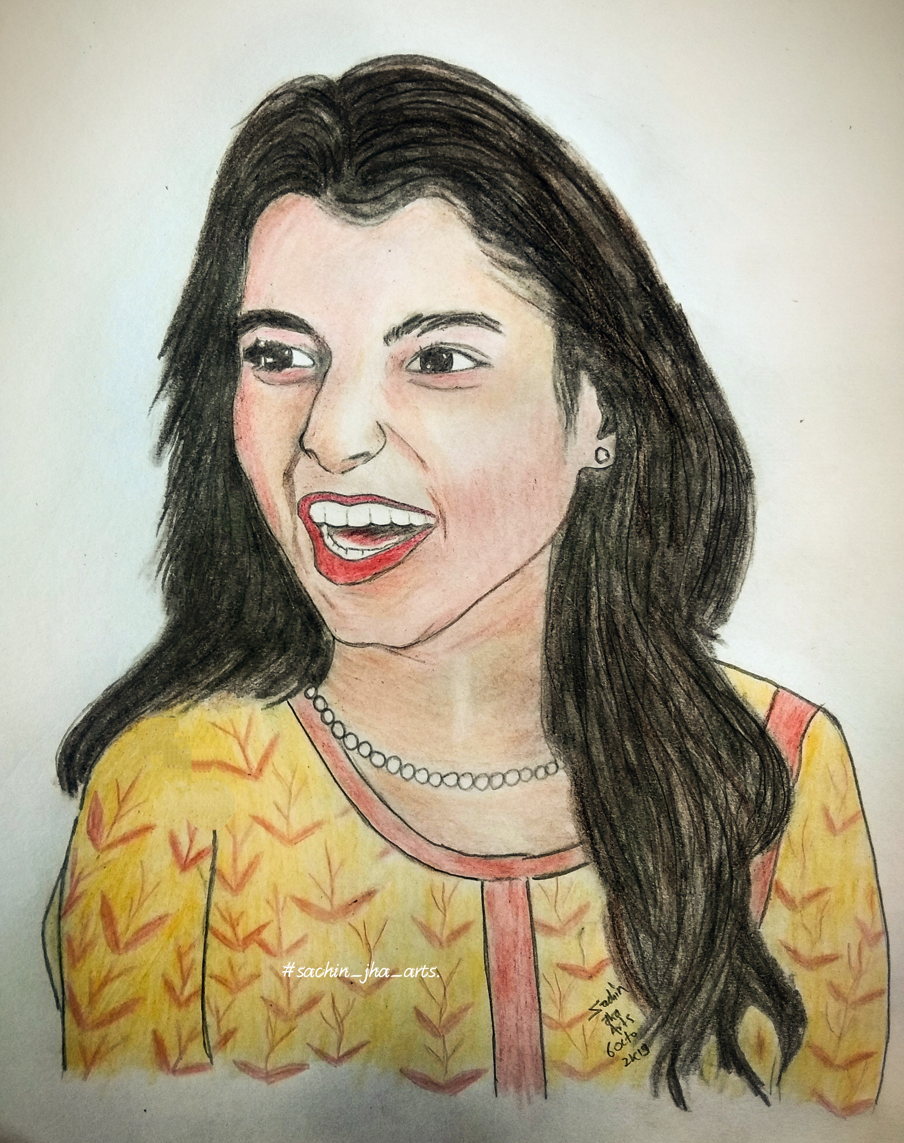 Portrait of Maithili Thakur (Indian singer)